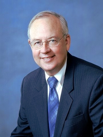 Kenneth W. Starr, United States Solicitor General from 1989 to 1993 and Independent Counsel to investigate the death of the deputy White House counsel Vince Foster and the Whitewater land transactions by President Bill Clinton.